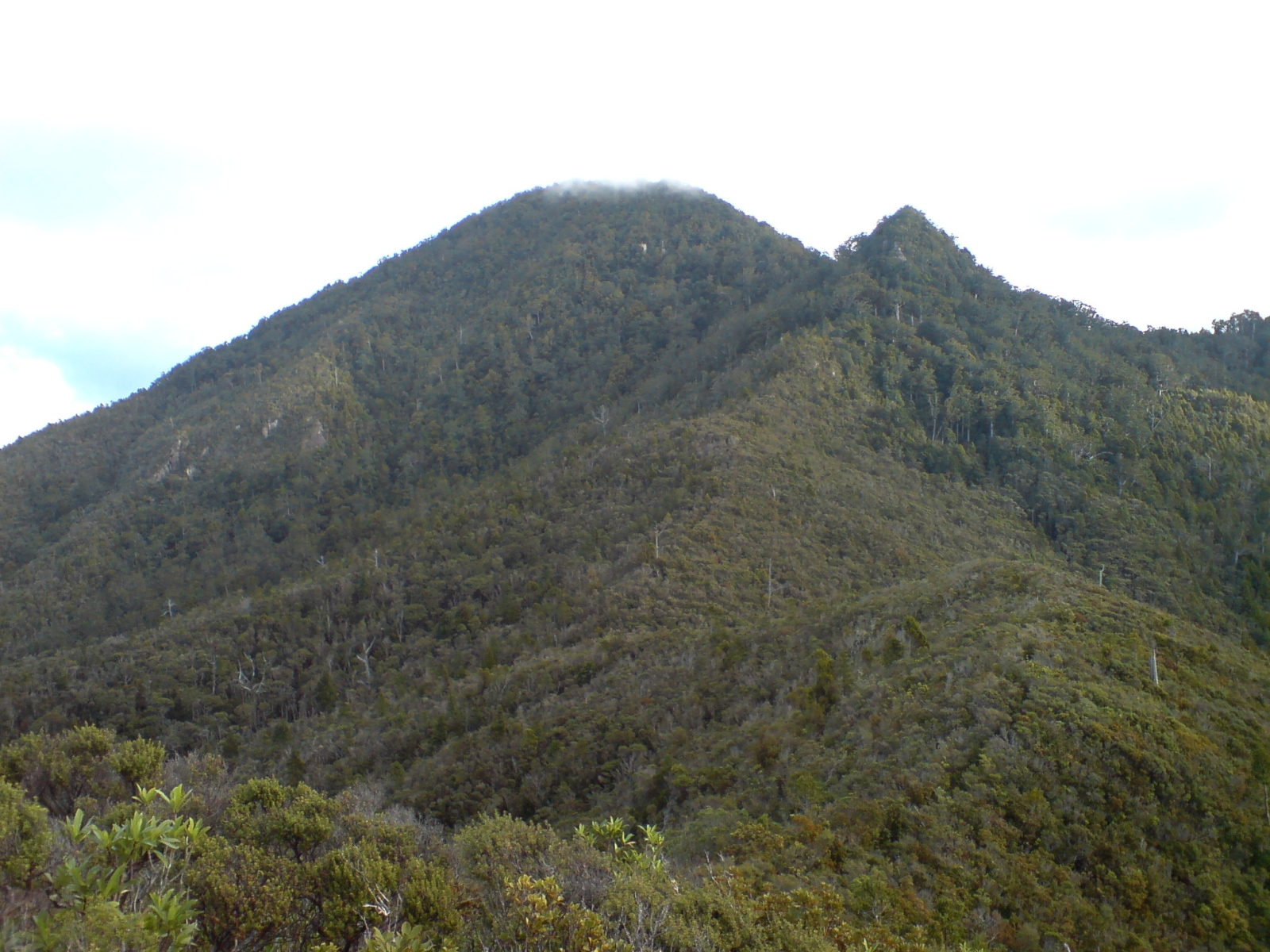 The top of Mount Hobson, Great Barrier Island, New Zealand slightly hidden by the clouds drifting over the island on that day.